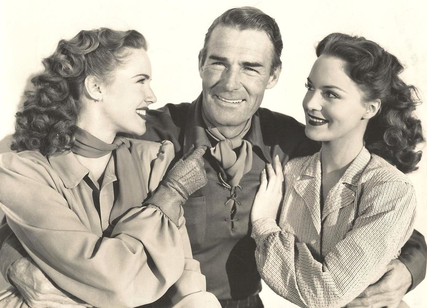 L. to R. : Barbara Britton, Randolph Scott & Dorothy Hart in Gunfighters - publicity still (damaged, modified and cropped)